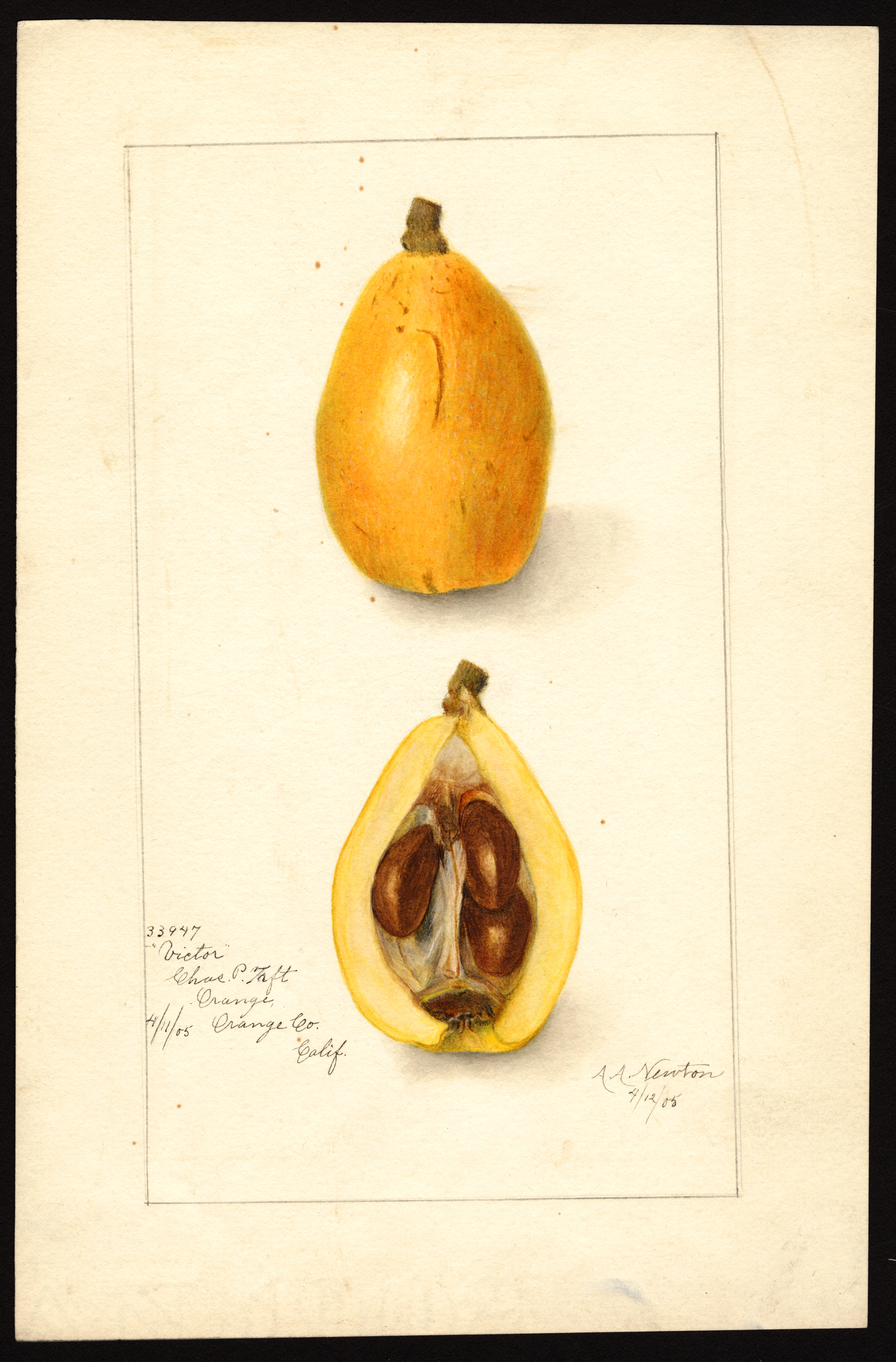 Image of the Victor variety of loquats (scientific name: Eriobotrya japonica), with this specimen originating in Orange, Orange County, California, United States. Source: U.S. Department of Agriculture Pomological Watercolor Collection. Rare and Special Collections, National Agricultural Library, Beltsville, MD 20705.